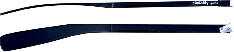 composite sled hockey sticks